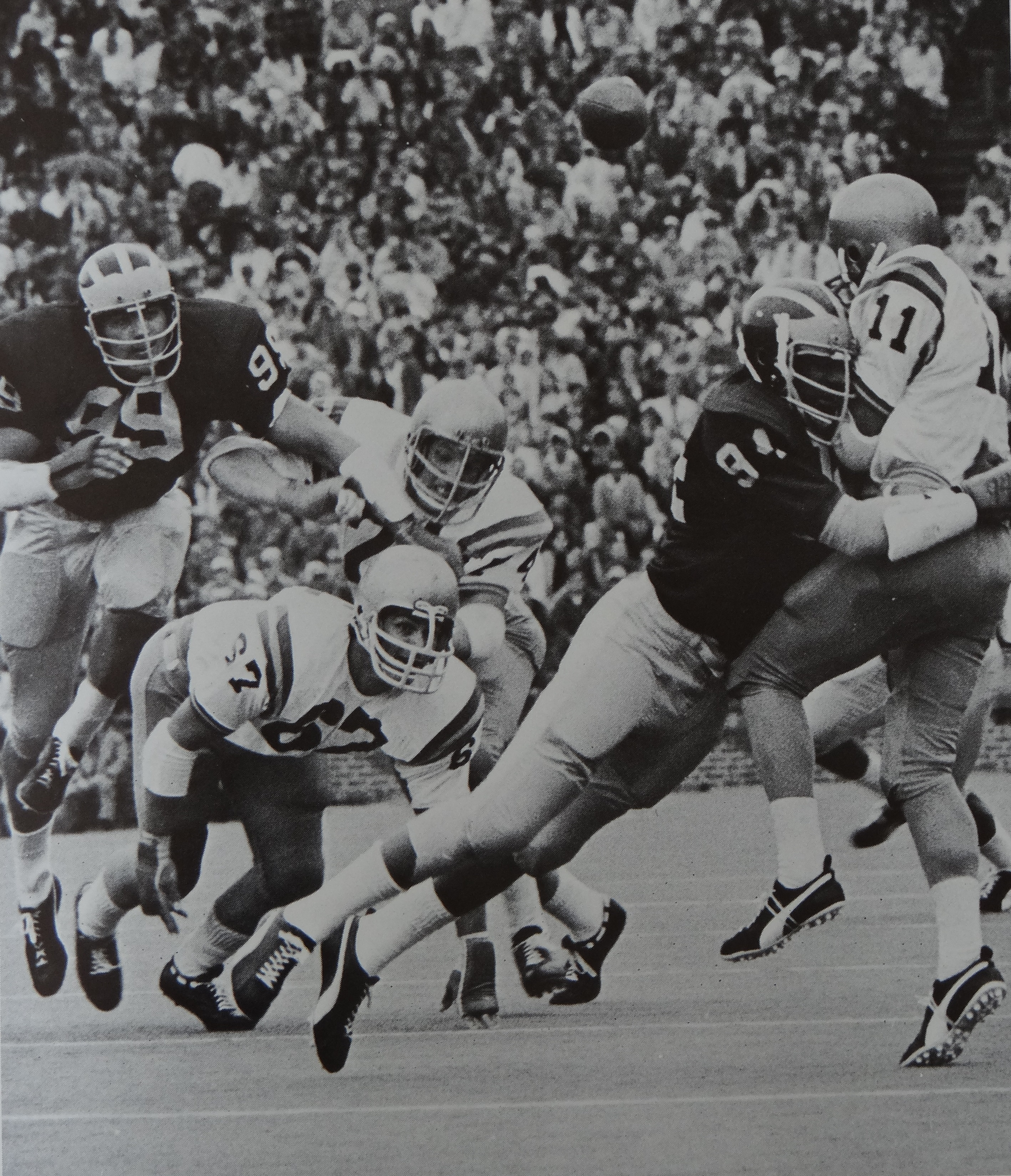 Photograph of of University of Michigan football players Tom Beckman (99) and Butch Carpenter (94) in 1971.